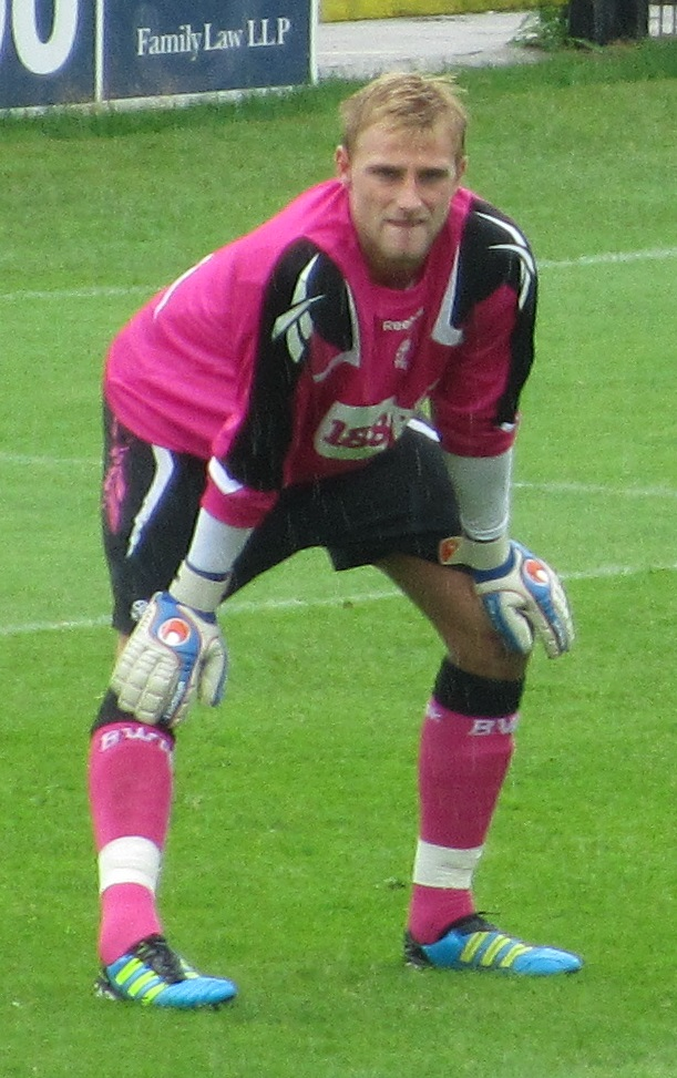 Rob Lainton playing for Bolton Wanderers against York City at Bootham Crescent, York on 6 August 2011